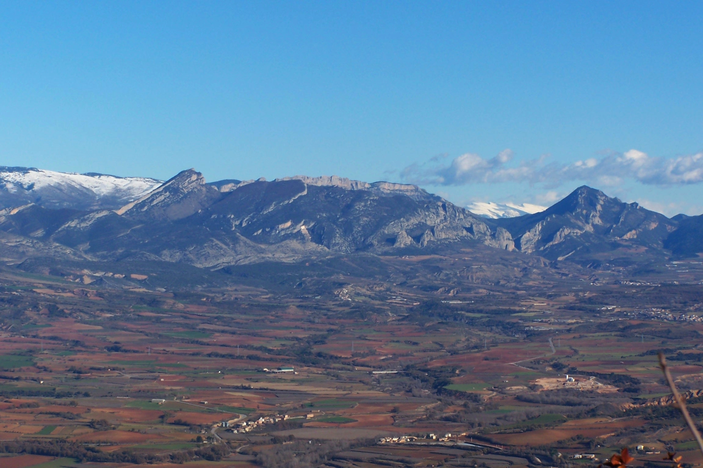 View of the Tremp Basin from the west, looking northeast